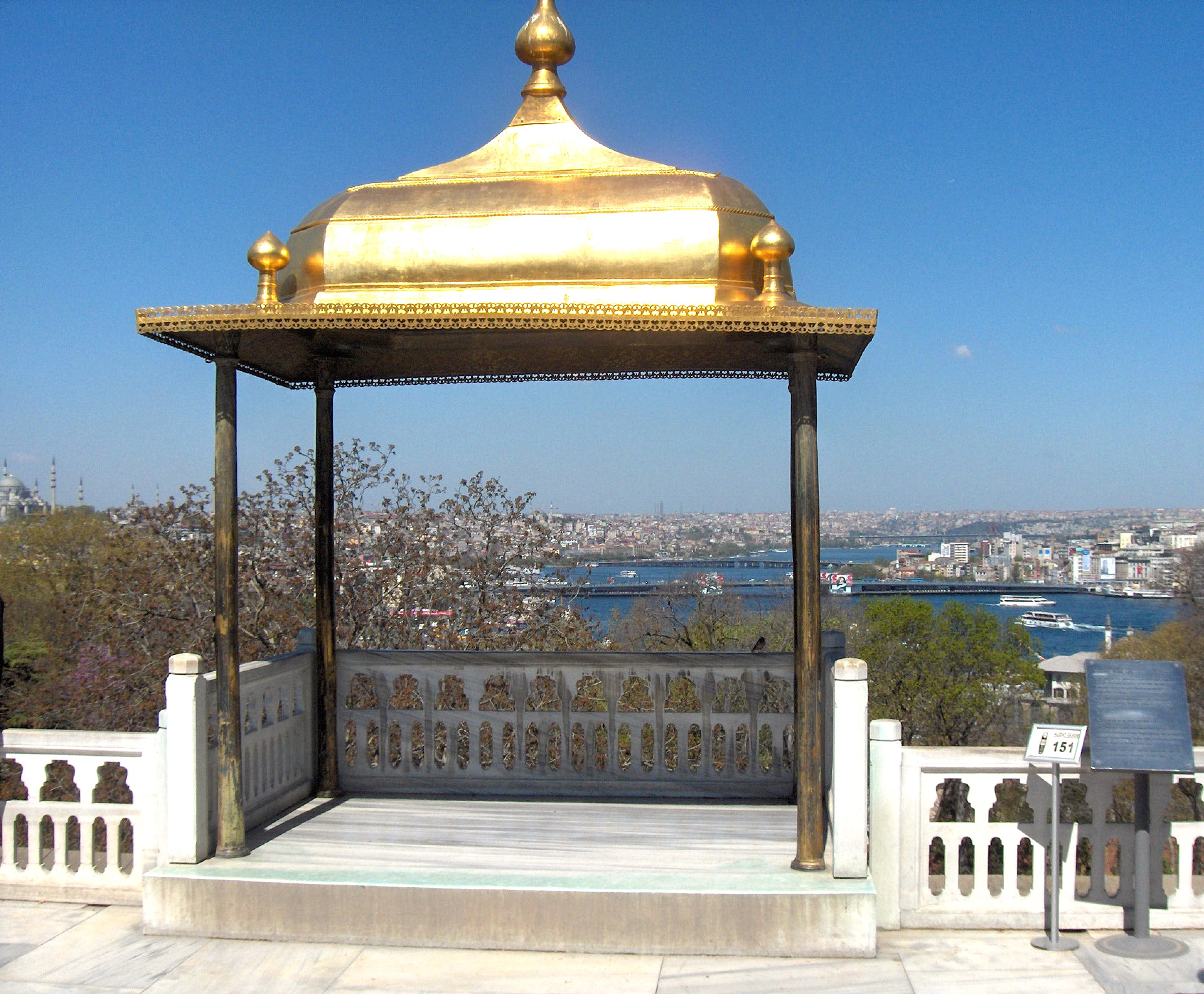 View from the Iftar bower on the Golden Horn ;the fourth court; Topkapı Palace, Istanbul, Turkey